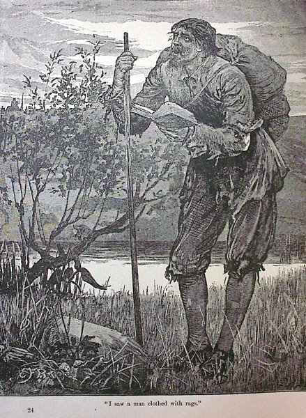 I saw a man clothed with rags.